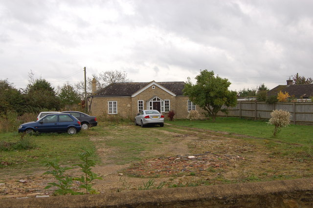 Former Chartist bungalow and smallholding, Brize Norton Road, Minster Lovell, Oxfordshire